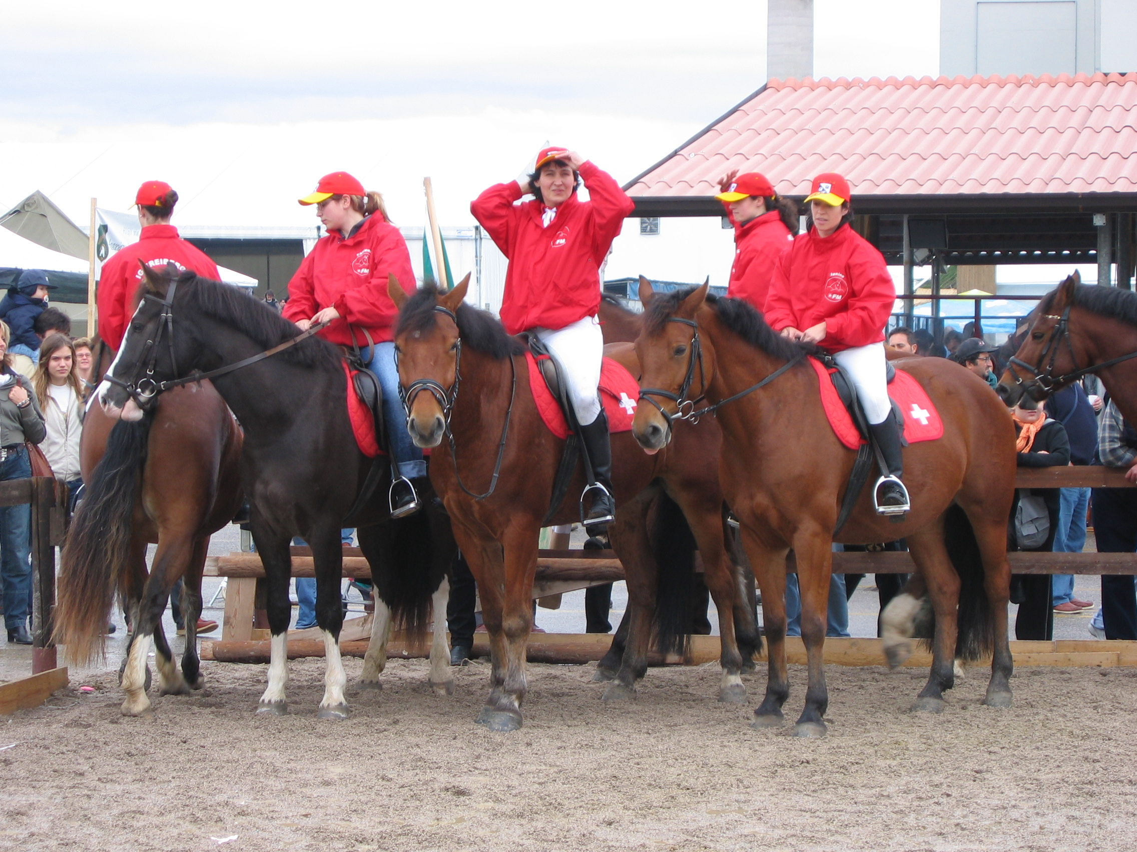 Swiss Franches Montagnes (Freiberger) horses under saddle. Photographed at Fieracavalli in Verona, Italy on 6 November 2004 by Paula Jantunen, Finland.